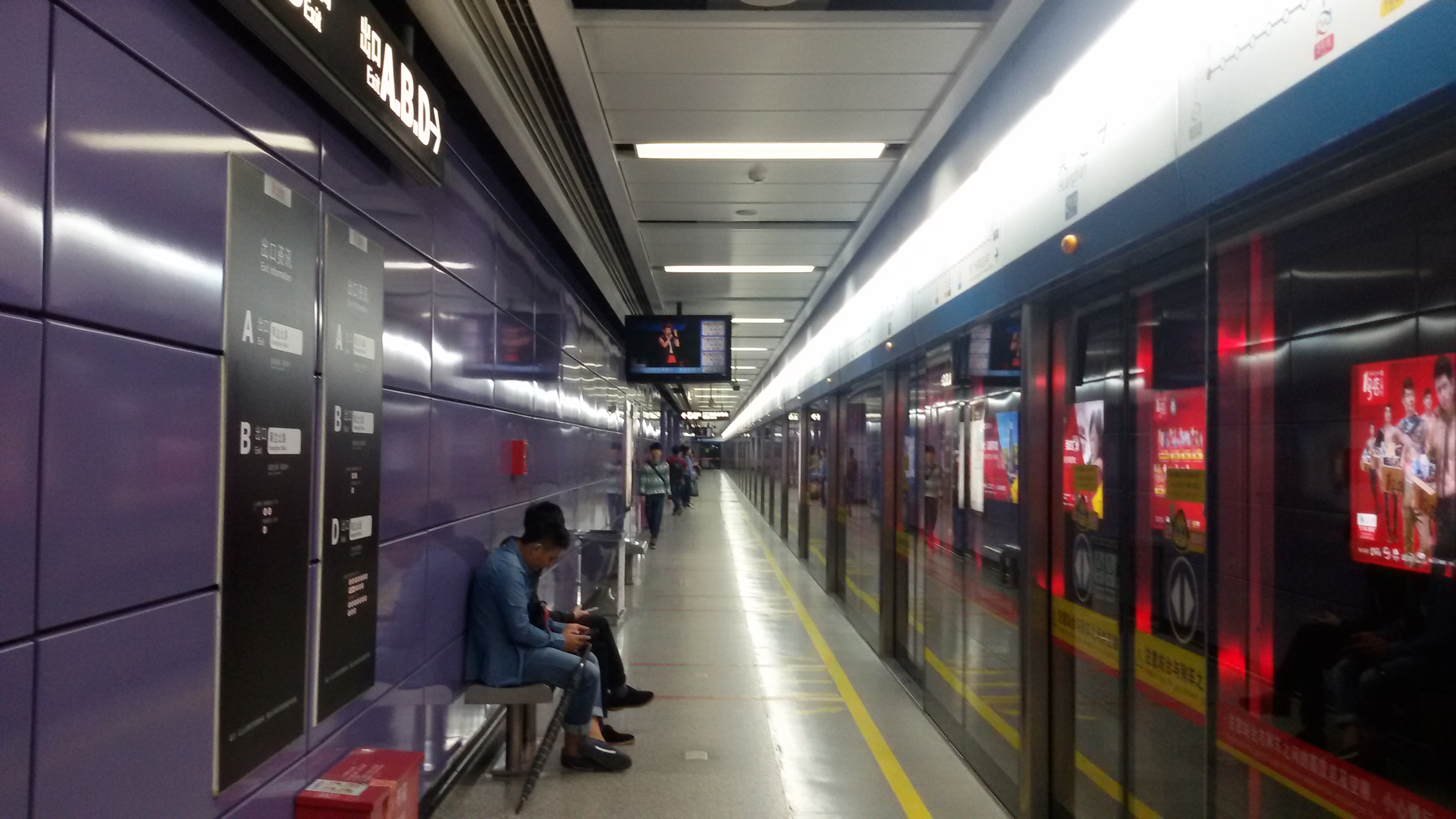 Station Platform for Huangbian Station (Towards Guangzhou South Railway Station) in Guangzhou Metro.